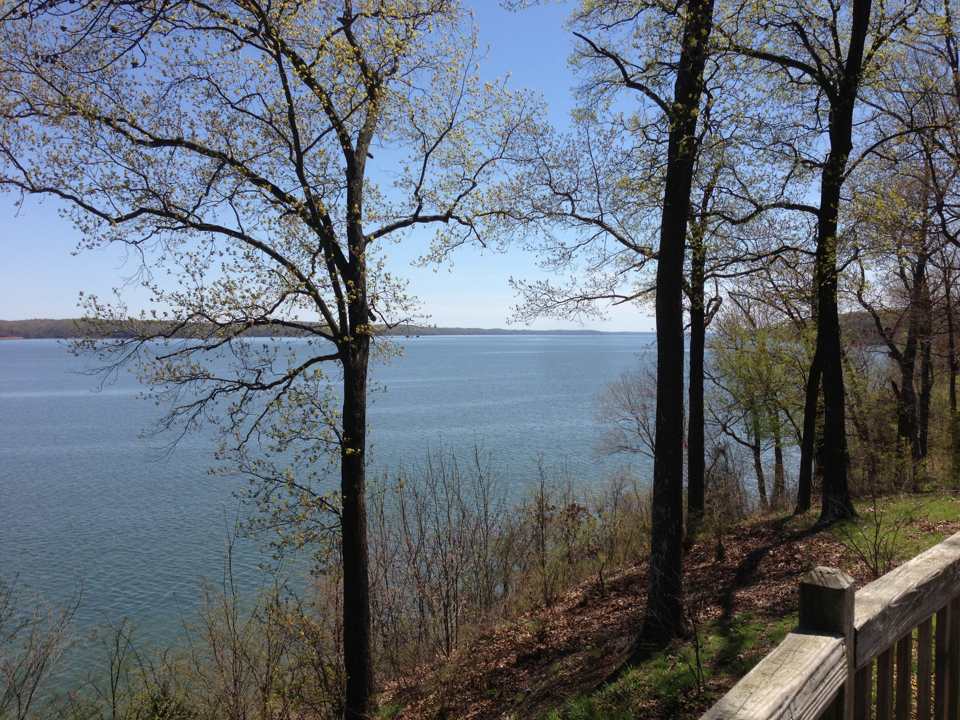 Looking upstream where the Tennessee River has flowed northwest from Huntsville, AL.